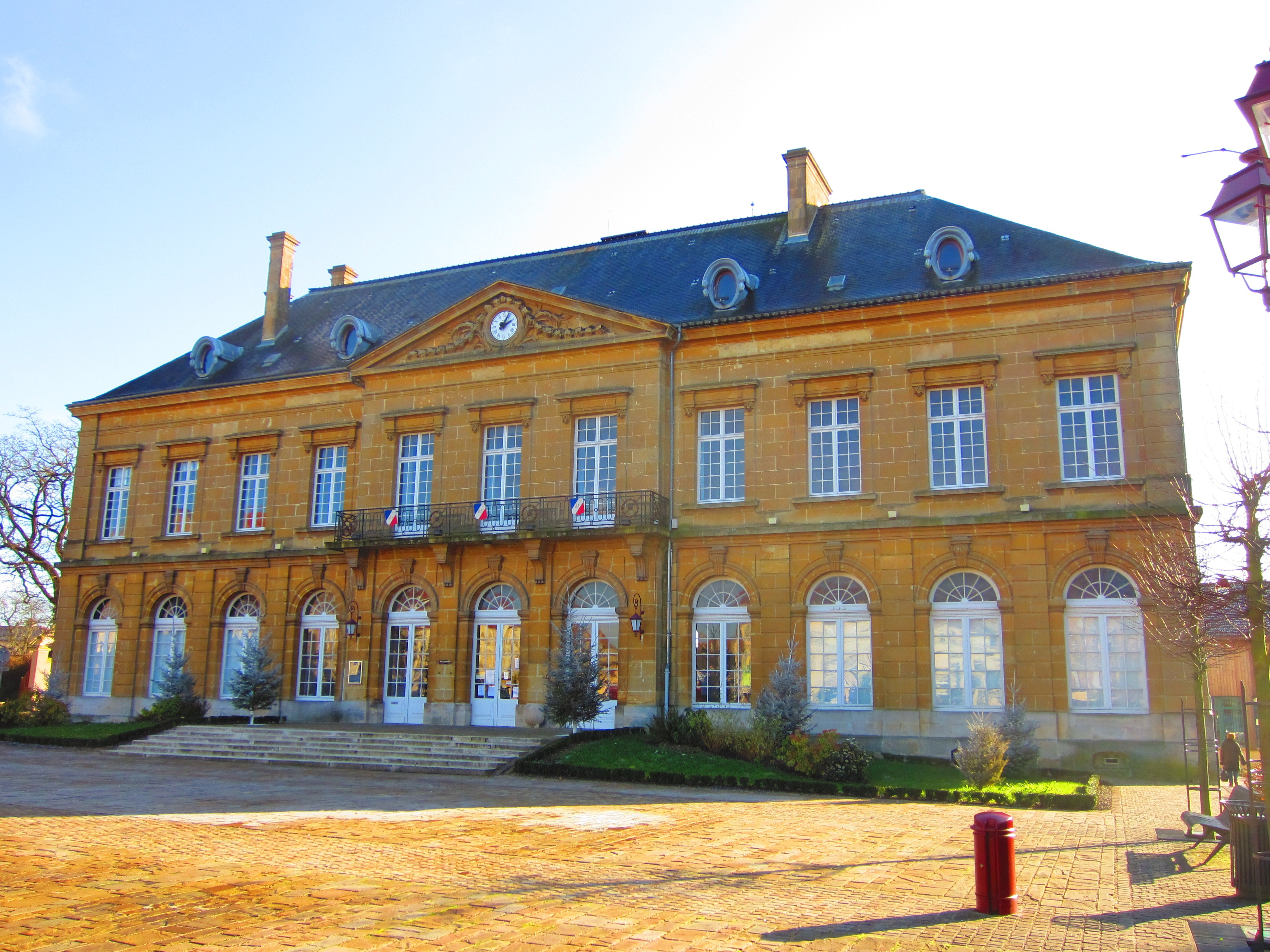 Etain town council